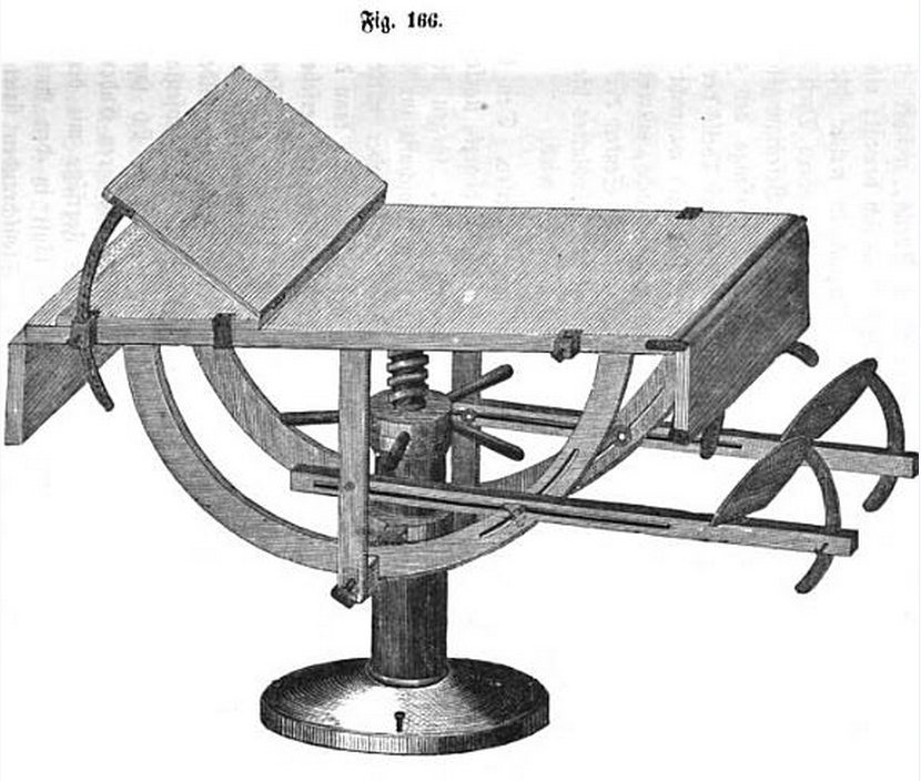 Operations table by Carl Emmert